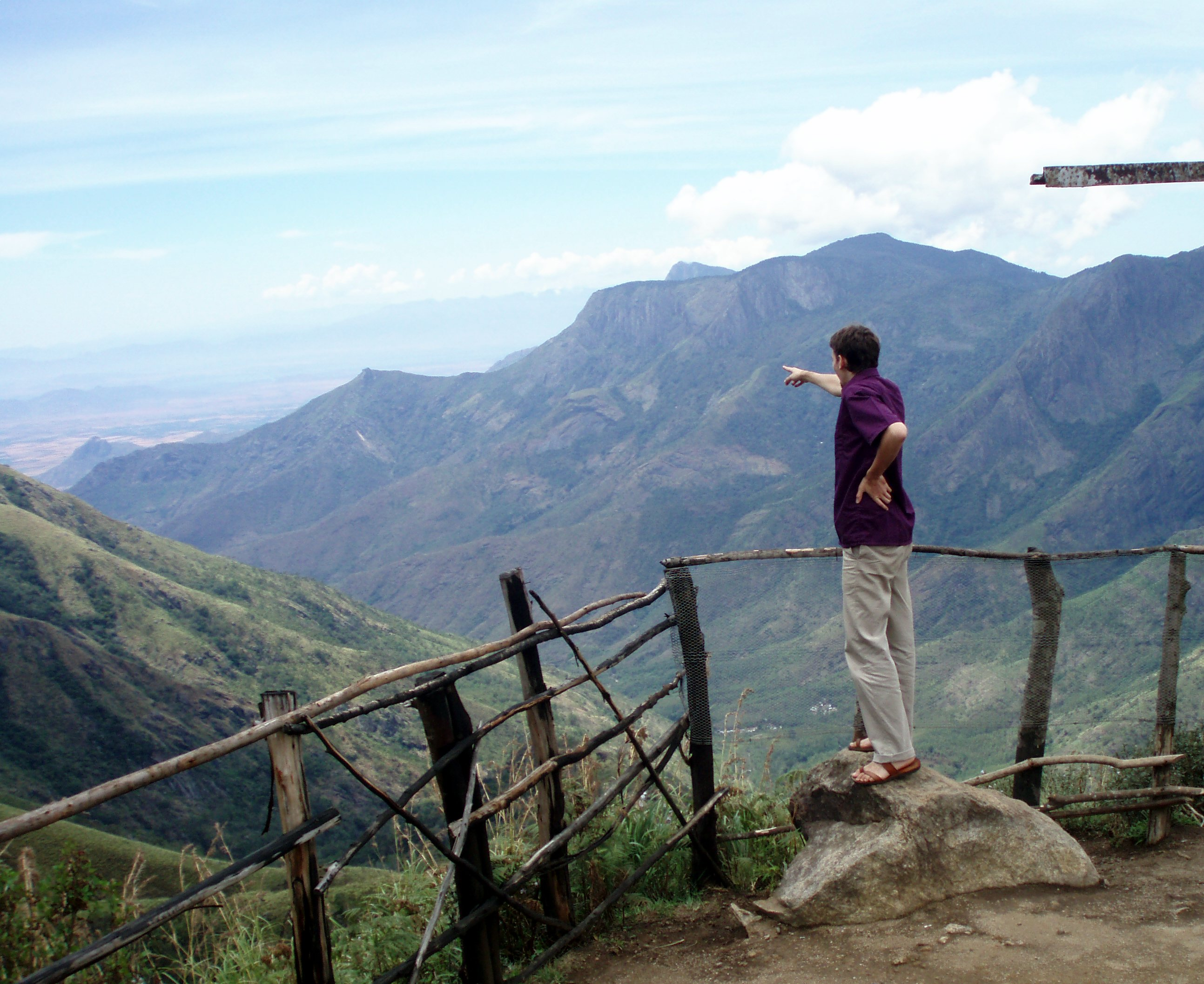 Top Station, Kerala